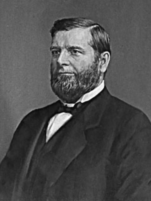 Portrait of LaFayette Funk. Funk died in 1919.